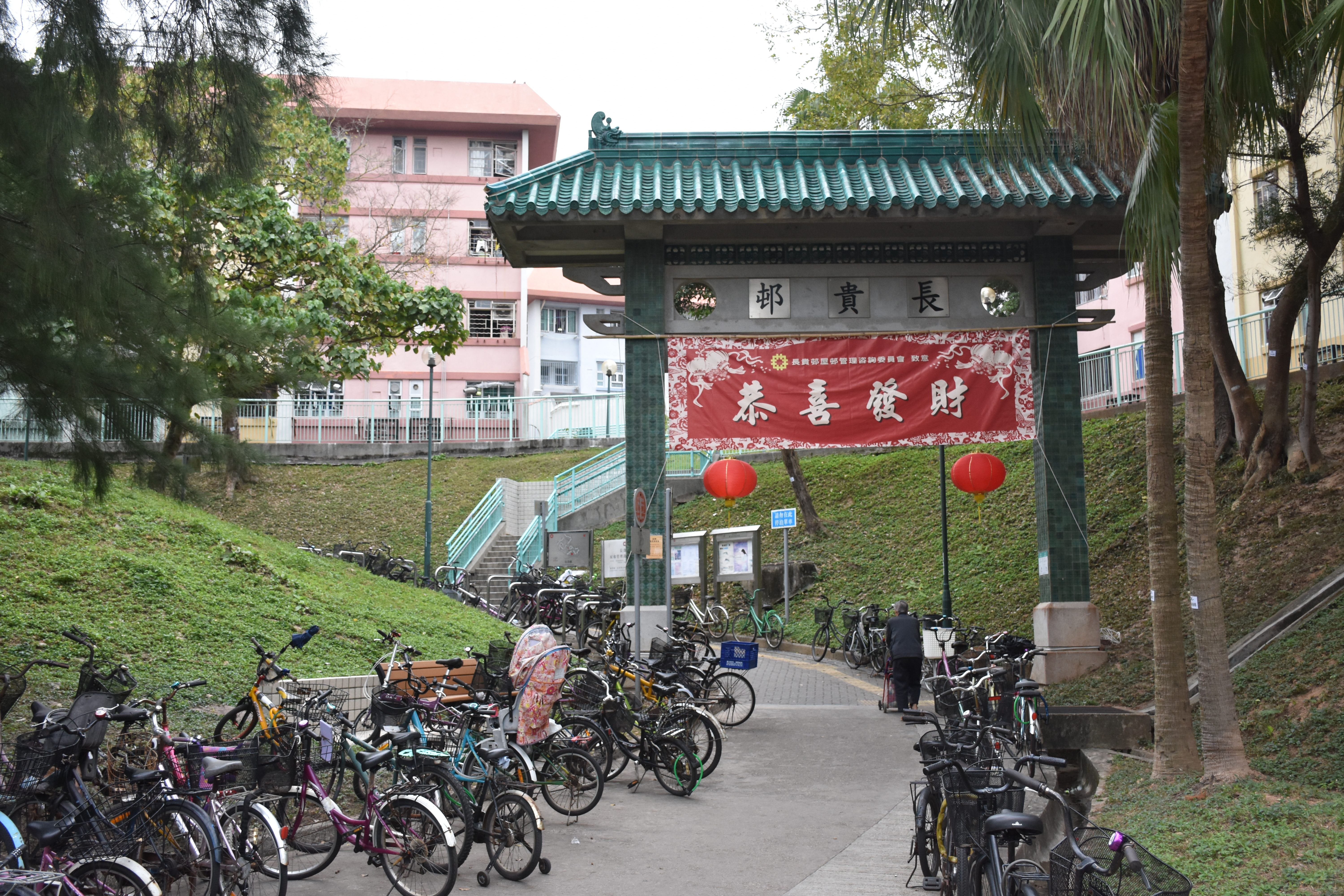 Cheung Kwai Estate, Cheung Chau